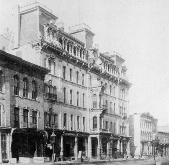 Original Plankinton House Hotel. Stood on the south side of W Wisconsin Ave between N Plankinton Ave and N 2nd St. Built in 1867 by John Plankinton. In 1876, the buildings on the left, and in 1882, the buildings on the right were demolished for additions to the hotel.